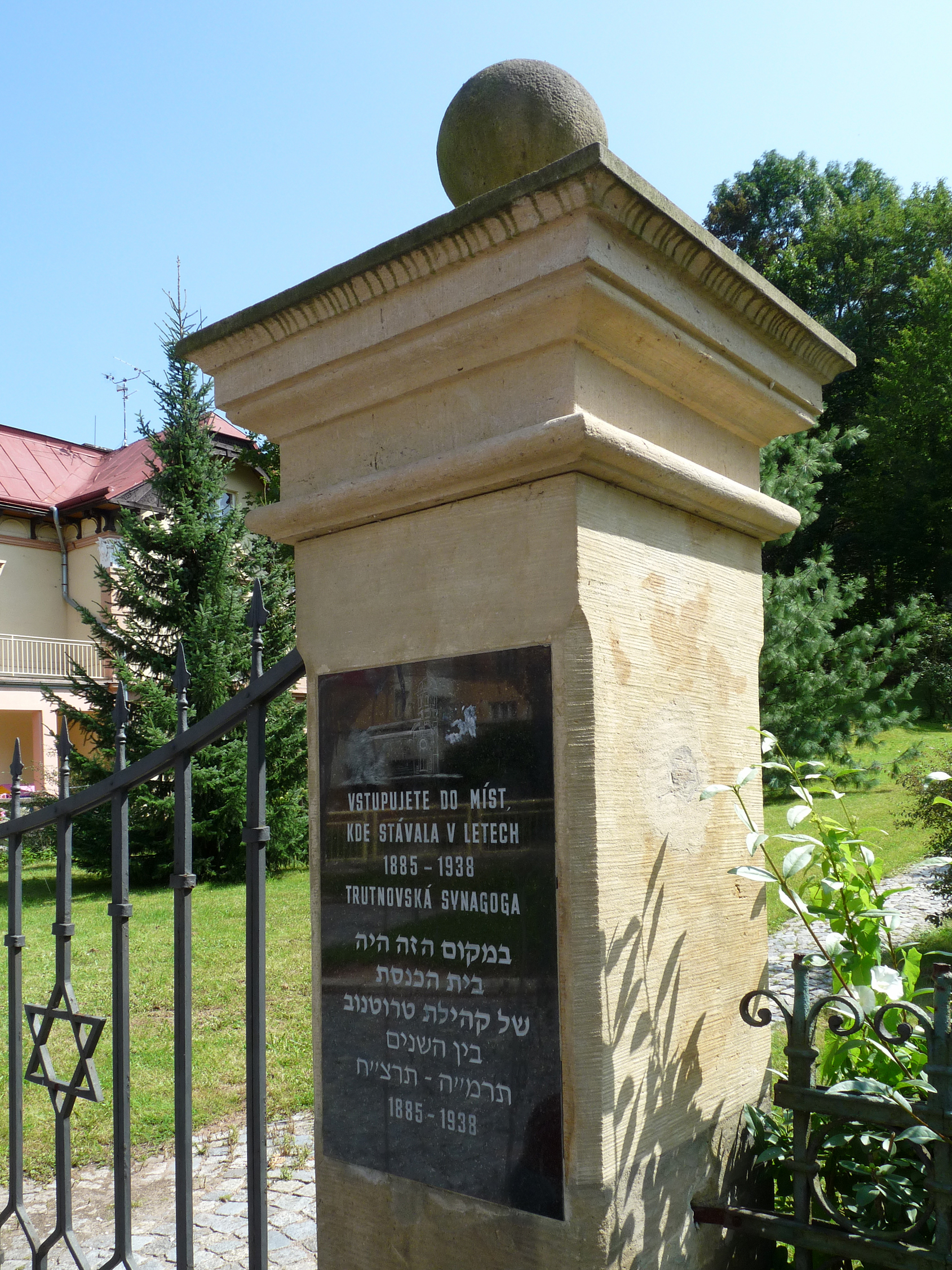 Memorial of the synagogue in the town of Trutnov, Hradec Králové Region, Czech Republic.